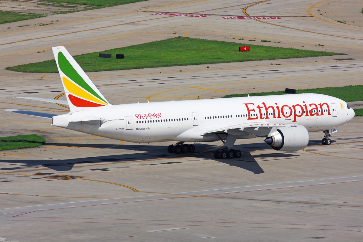 Ethiopian Airlines Boeing 777-200LR